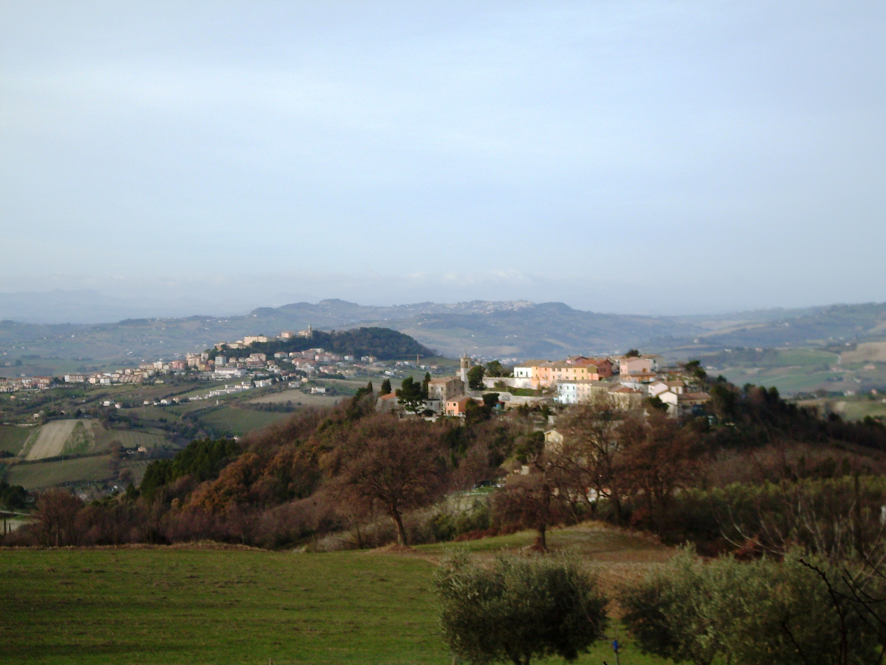 Italy Ancona Mount COnero - Massignano Camerano view